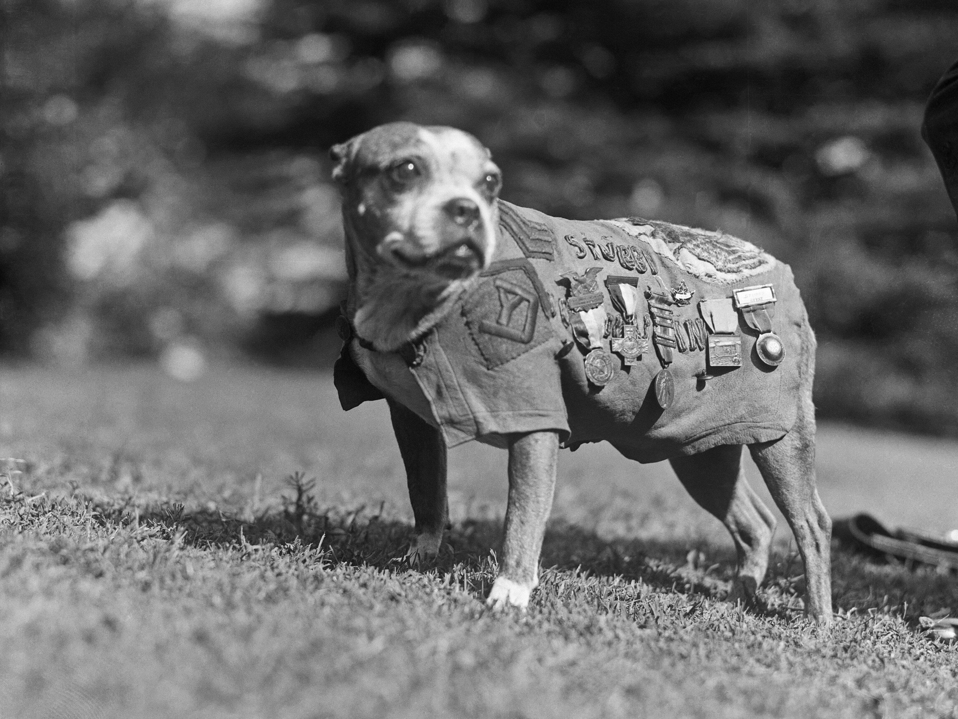 Sergeant Stubby wearing military uniform and decorations.